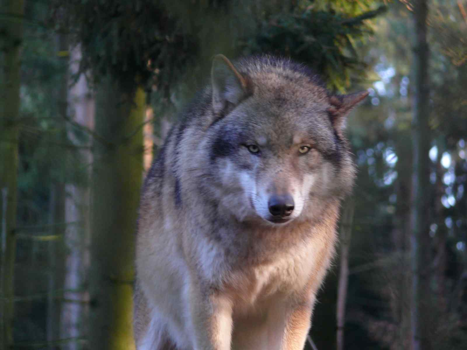 European wolf